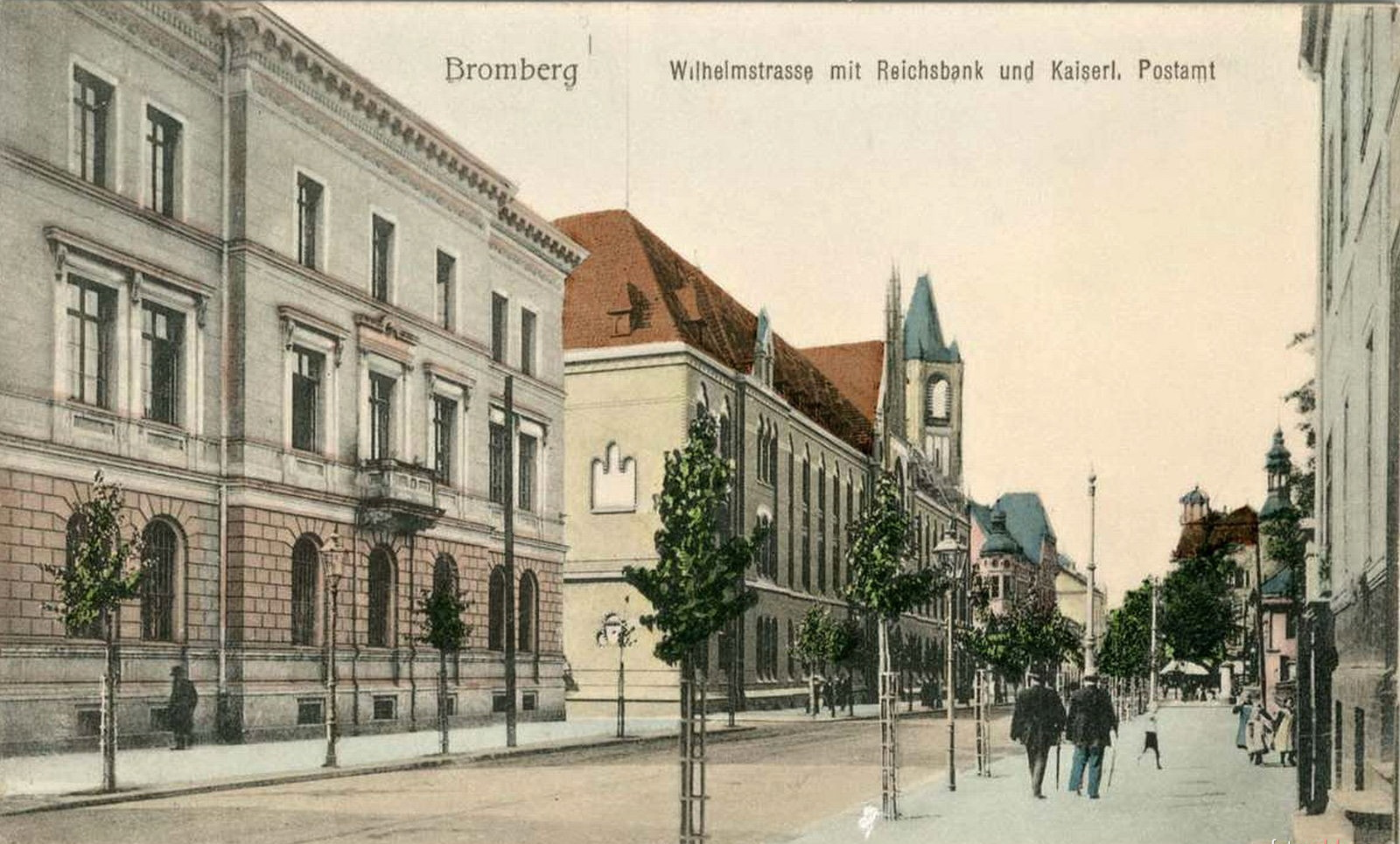 Jagiellonska street Bydgoszcz 1907